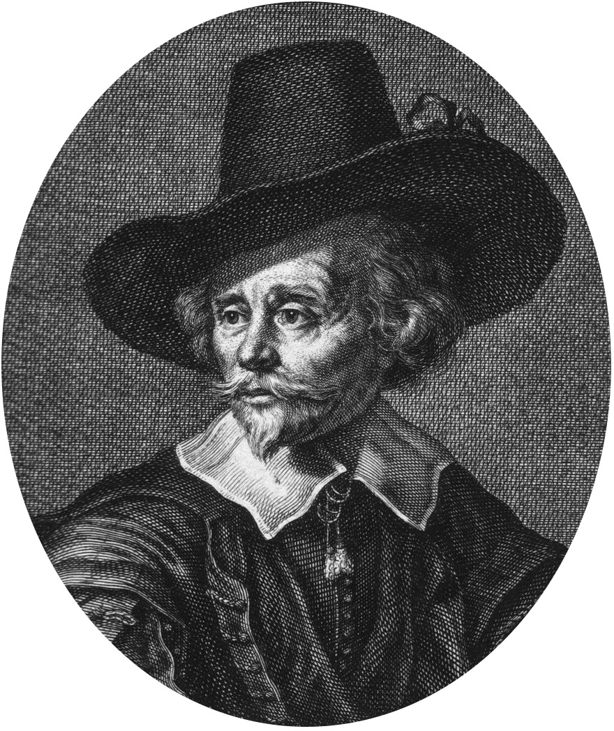 Samuel Coster (16 September 1579, Amsterdam - 1665)